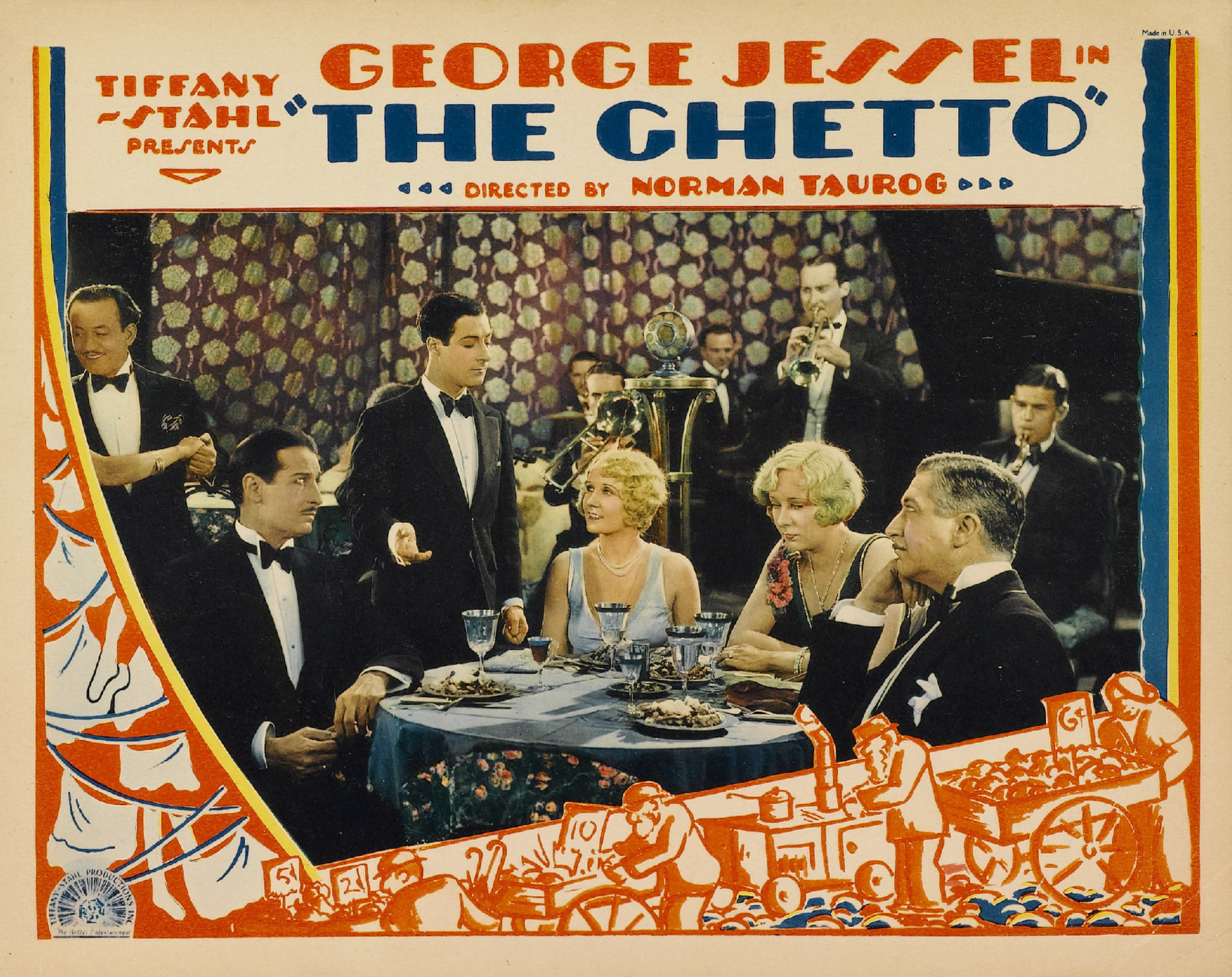 Lobby card for the American drama film Lucky Boy (1929) under its working title The Ghetto.